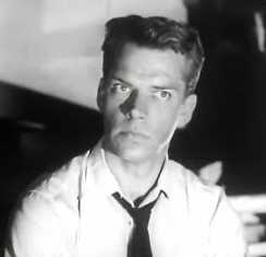 Cropped screenshot of Keith Andes from the trailer for the film Split Second.